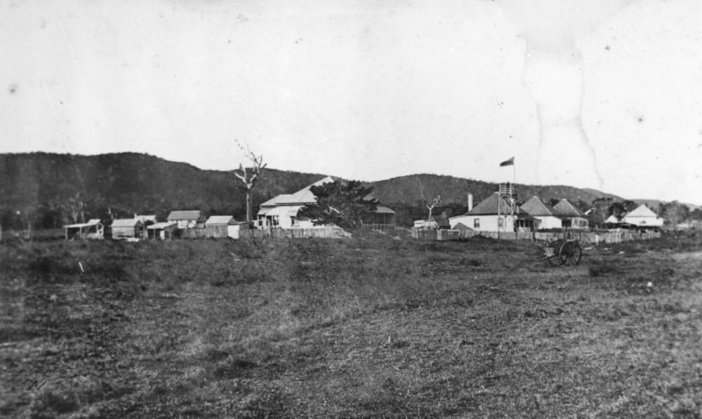 Pilot station buildings at Bulwer, 1899.